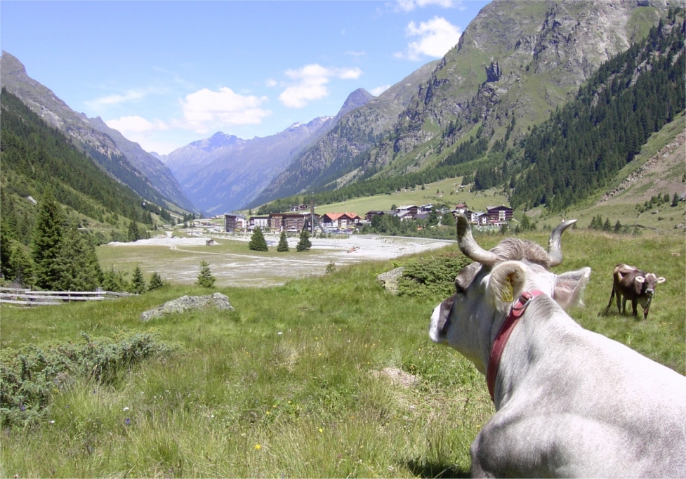 District Mandarfen of St. Leonhard in Pitztal in Tyrol, line of sight north, mid of picture Hairlacher Seekopf, right Sturpen juts out, both peeks of the Geigenkamm